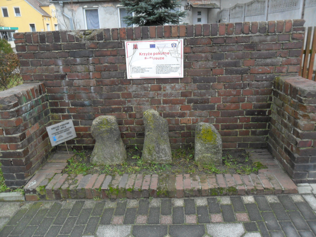 Stone crosses